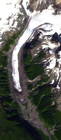 Satellite photo of the Kingcome Glacier.